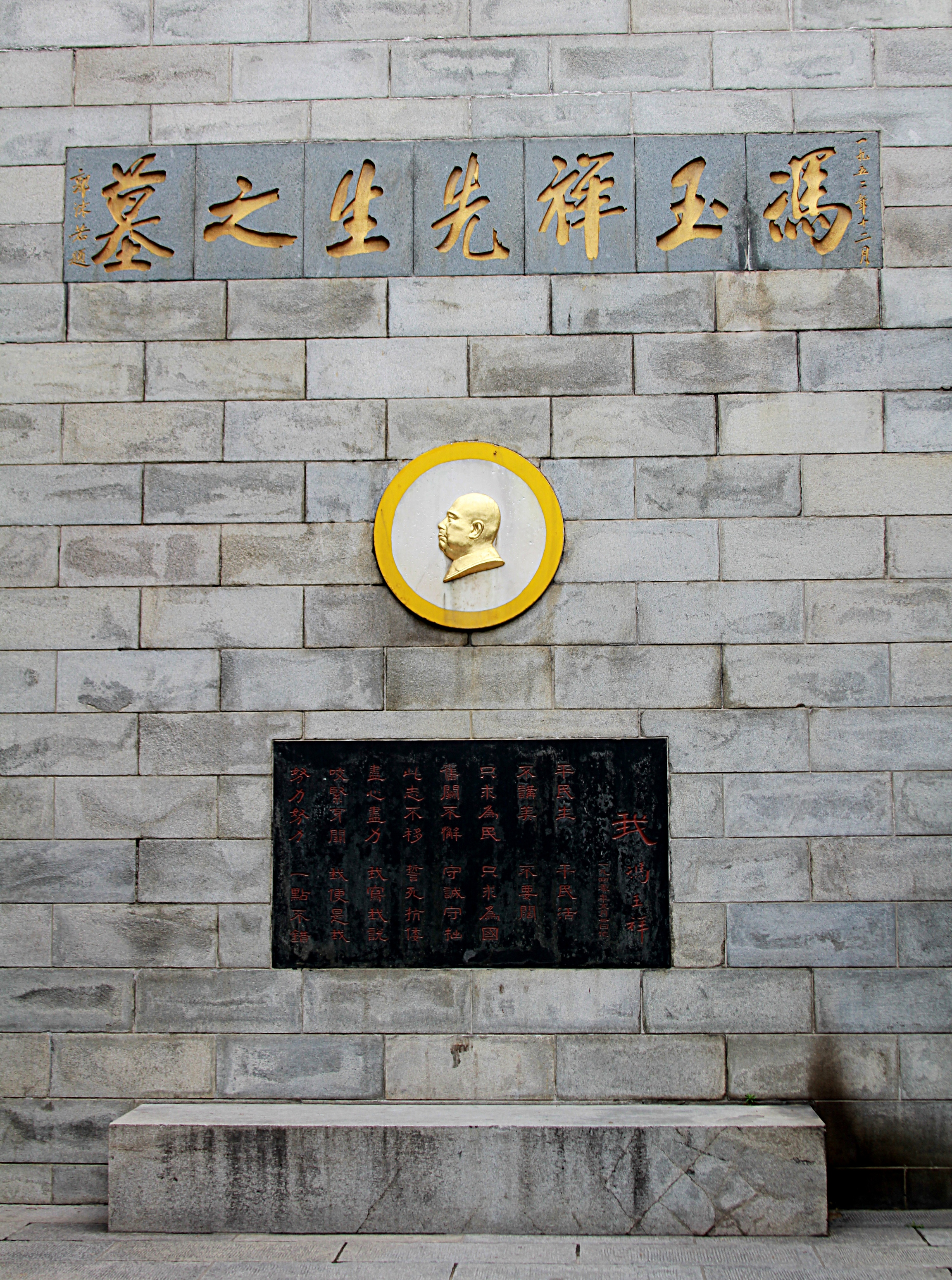 Photograph of the tomb of Feng Yuxiang at the foot of Mount Tai, Shandong Province, China.